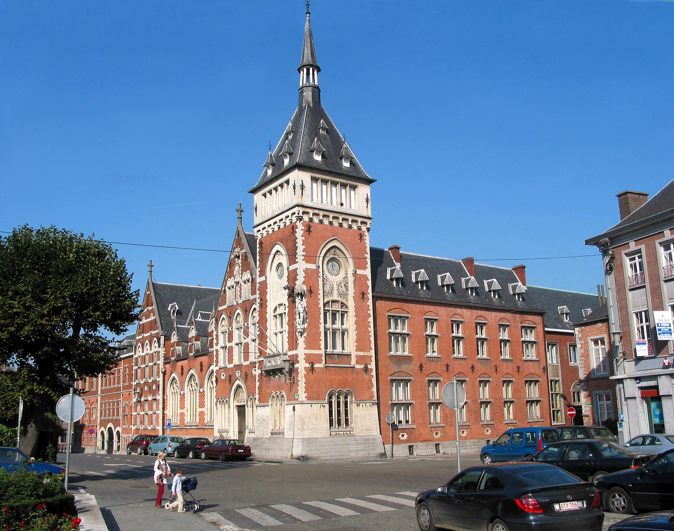 Nivelles (Belgium), the old courthouse (1888-1891).